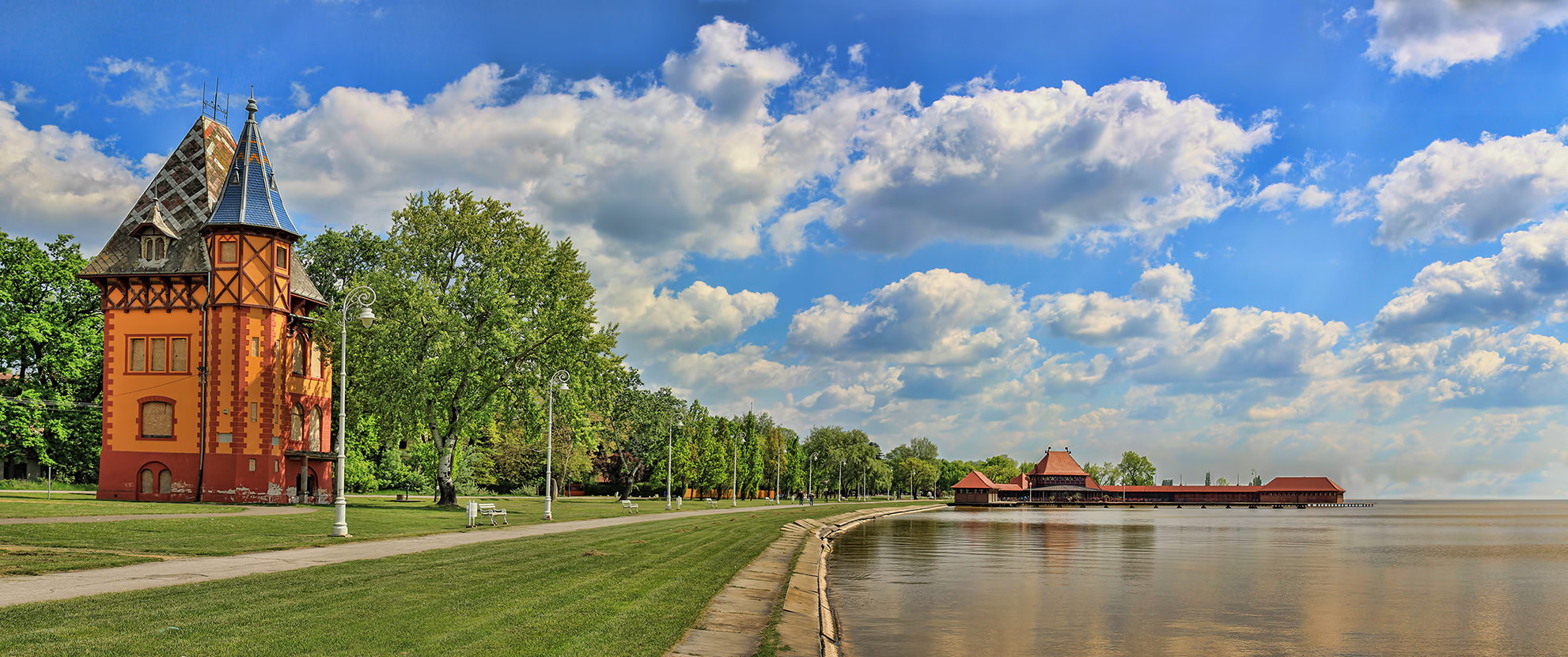 Ово је фотографија заштићеног природног добра у Србији под шифром: ПП10 This is a a photo of a natural area in Serbia with ID: ПП10 Lake Palic